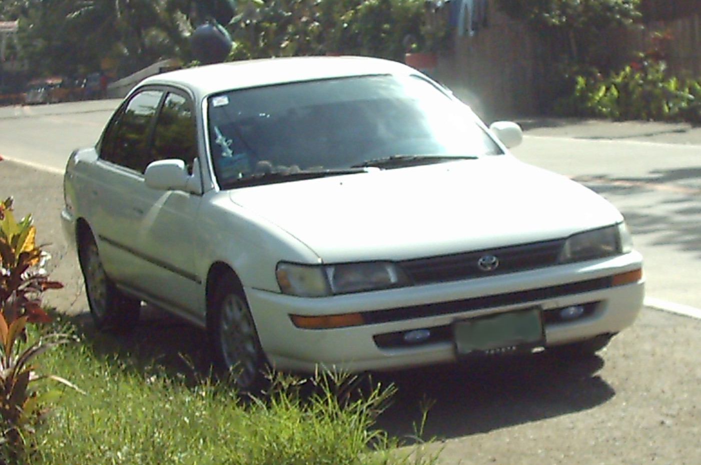 1993-1995 Toyota Corolla 1.6 GLi, photographed in the Philippines.)